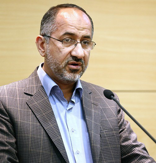 Ebrahimian (spokesperson of Council of Guardians) in a press conference.